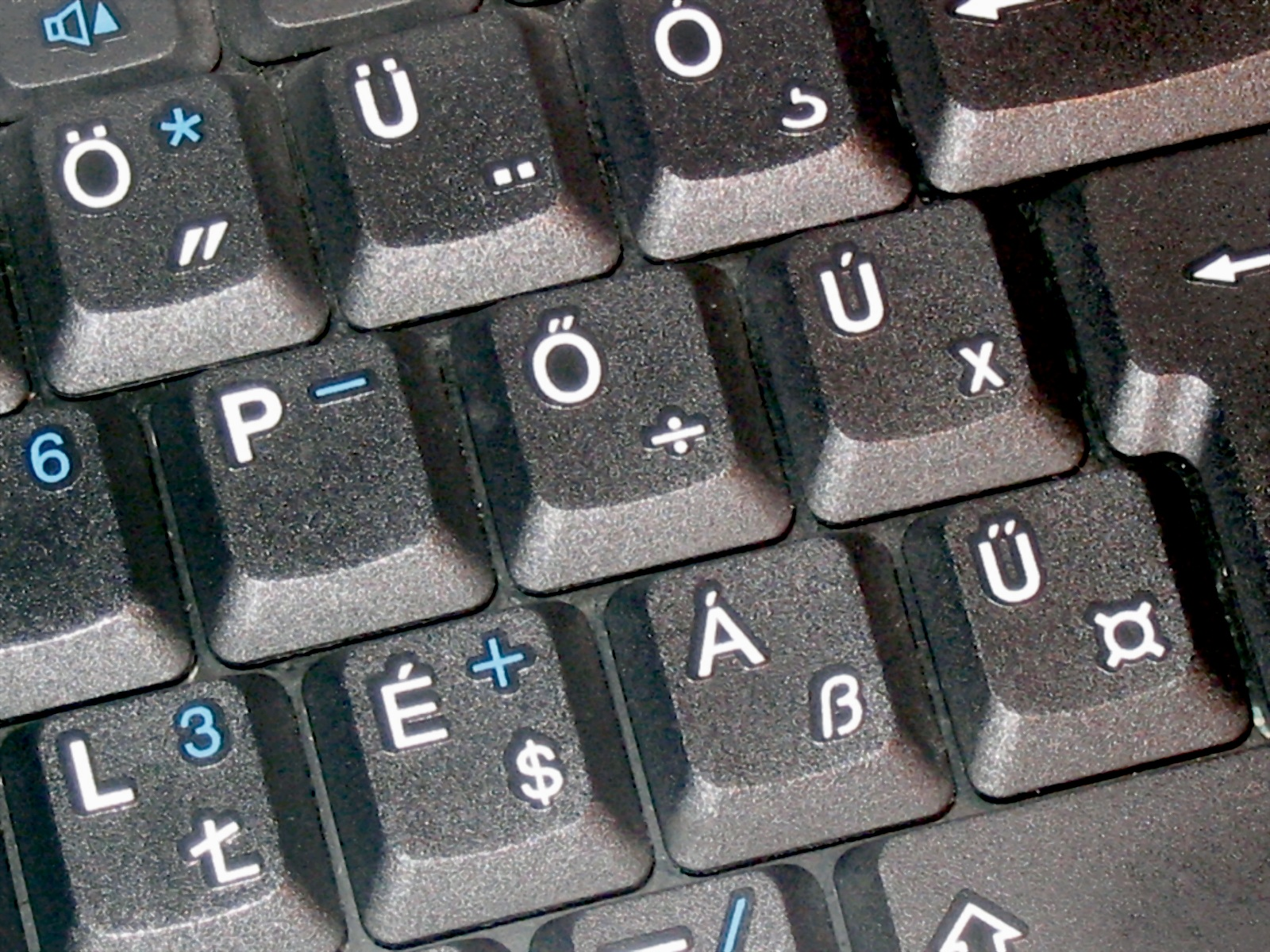 Special keys of a Hungarian keyboard. Such keys include ö, ü, ó, ő, ú, é, á, ű, etc.